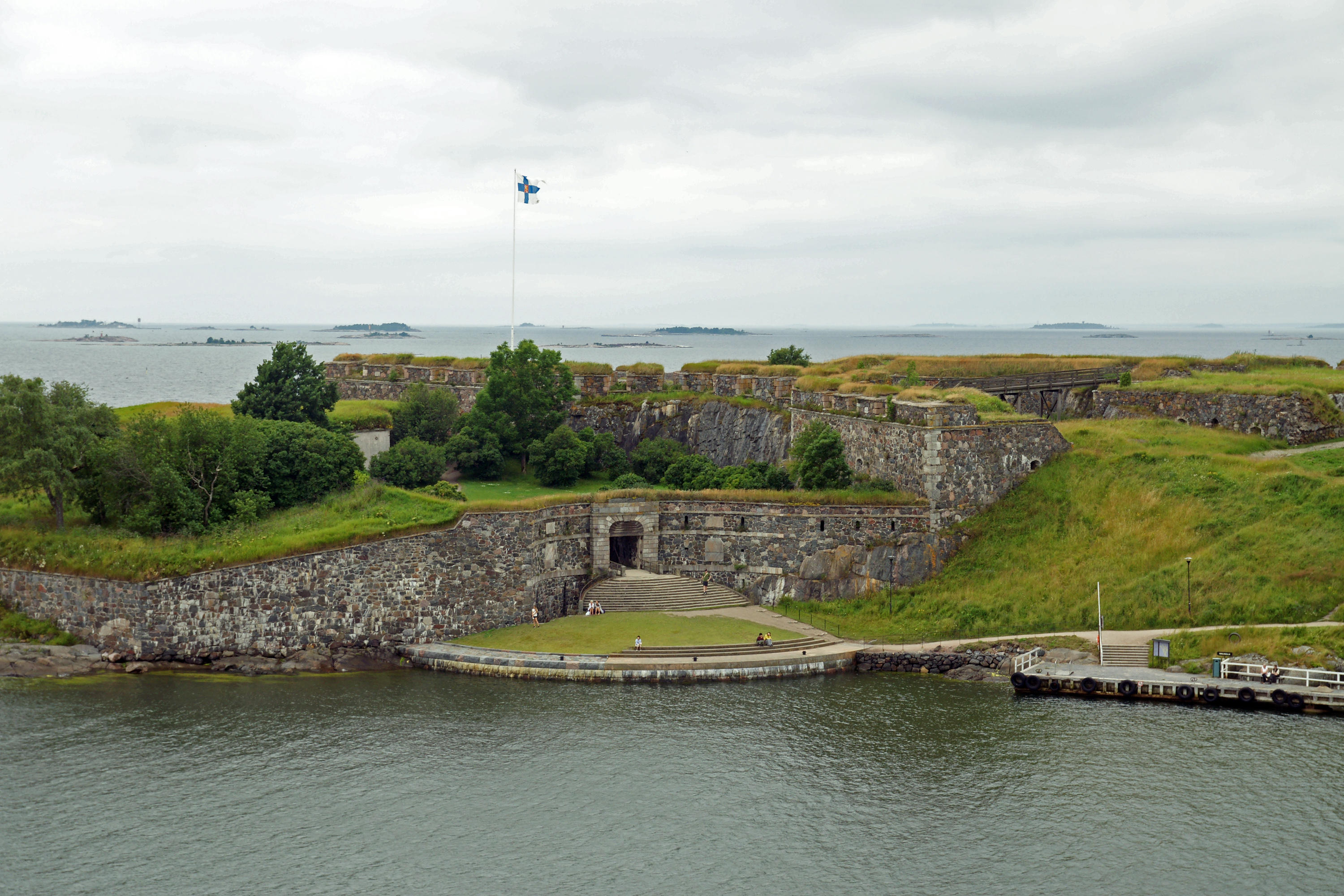 Suomenlinna